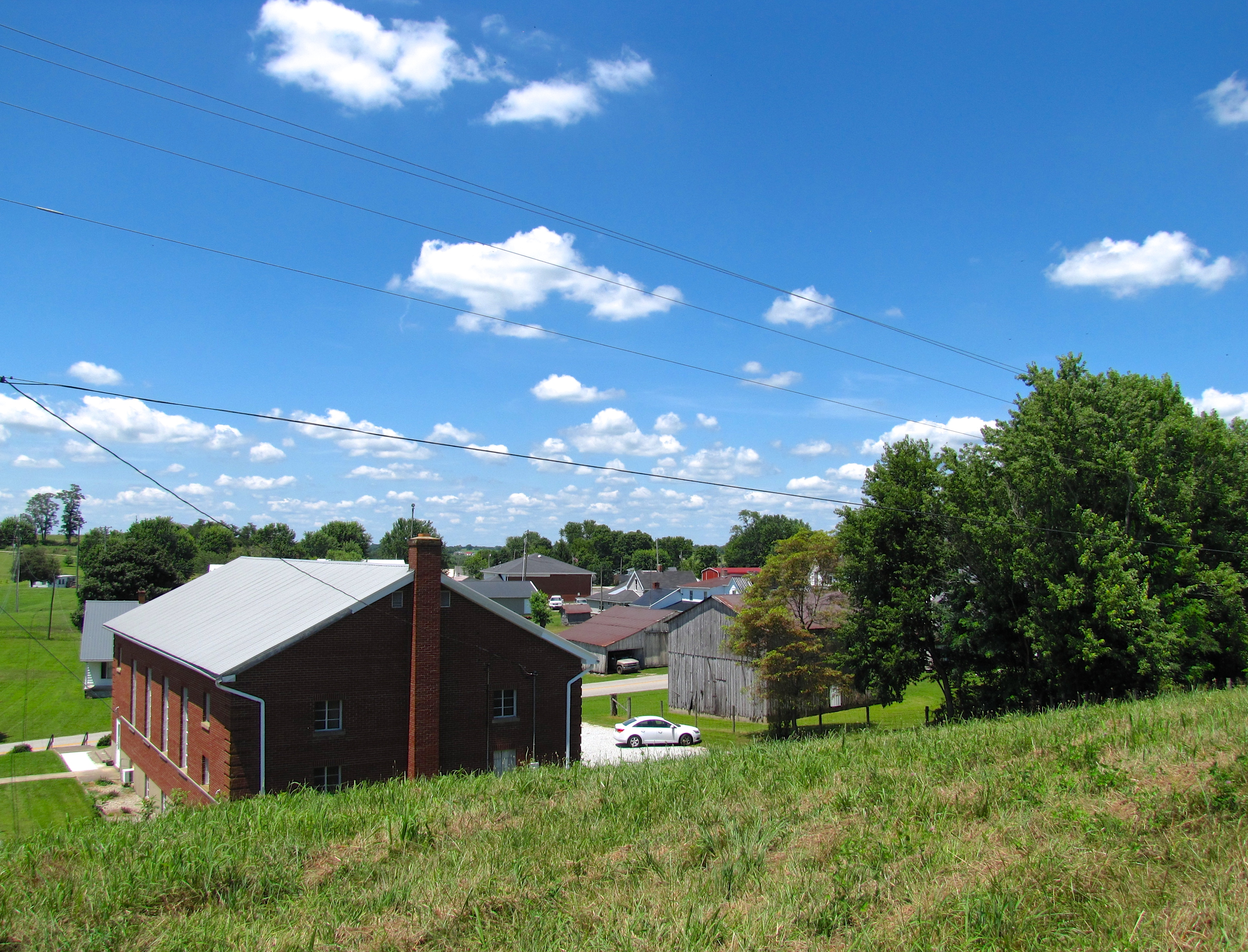 Gravel Switch, Kentucky, United States, viewed from the hill behind the Gravel Switch Baptist Church.